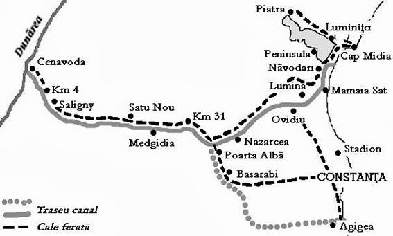 Map of the forced labor camps on the Danube-Black Sea channel building site.